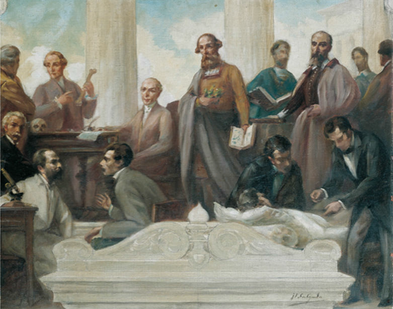 "Garcia de Orta and the Portuguese Physicians" (study, 1905), by Veloso Salgado.